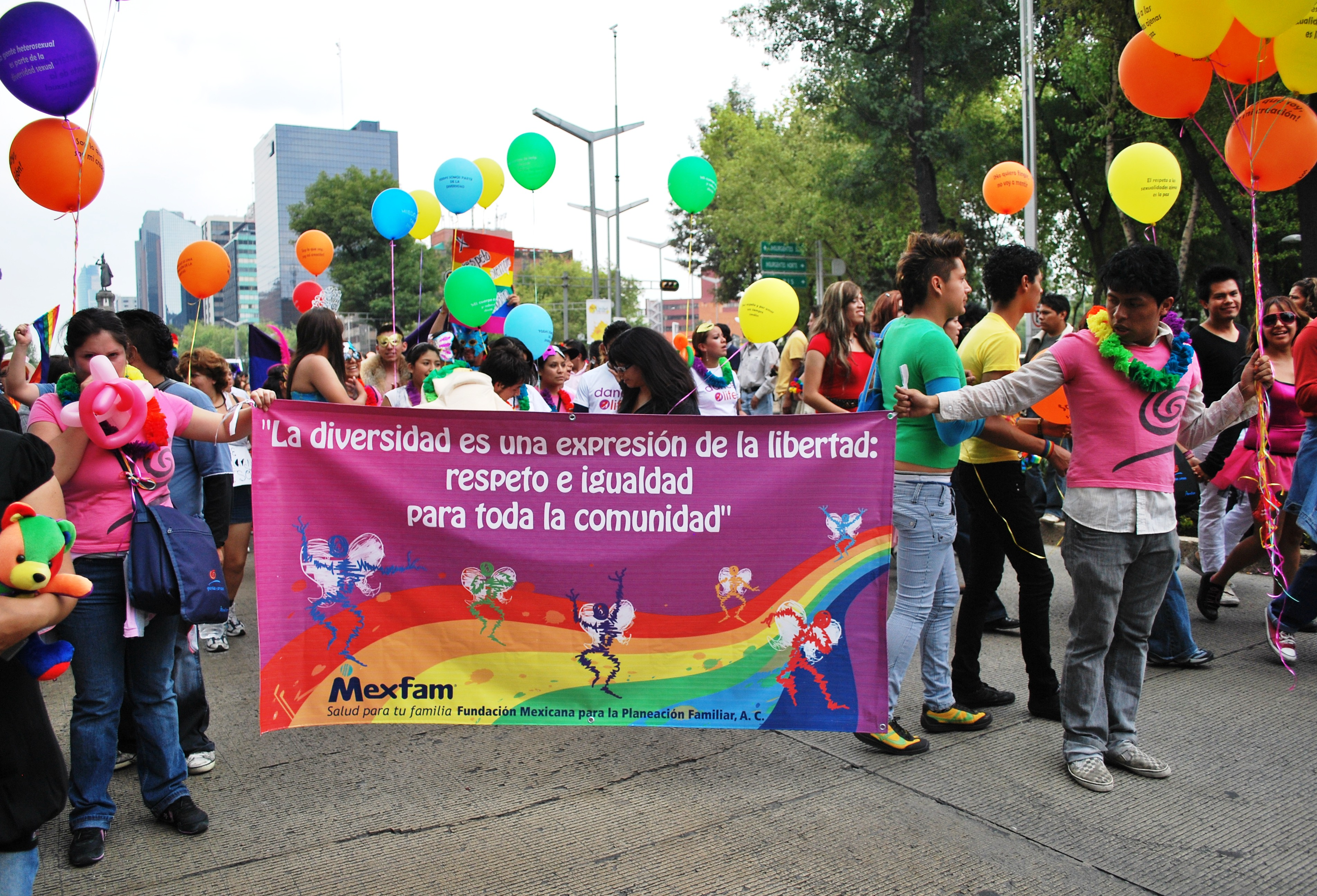 Group marching for gay rights in the 2009 Marcha Gay in Mexico City